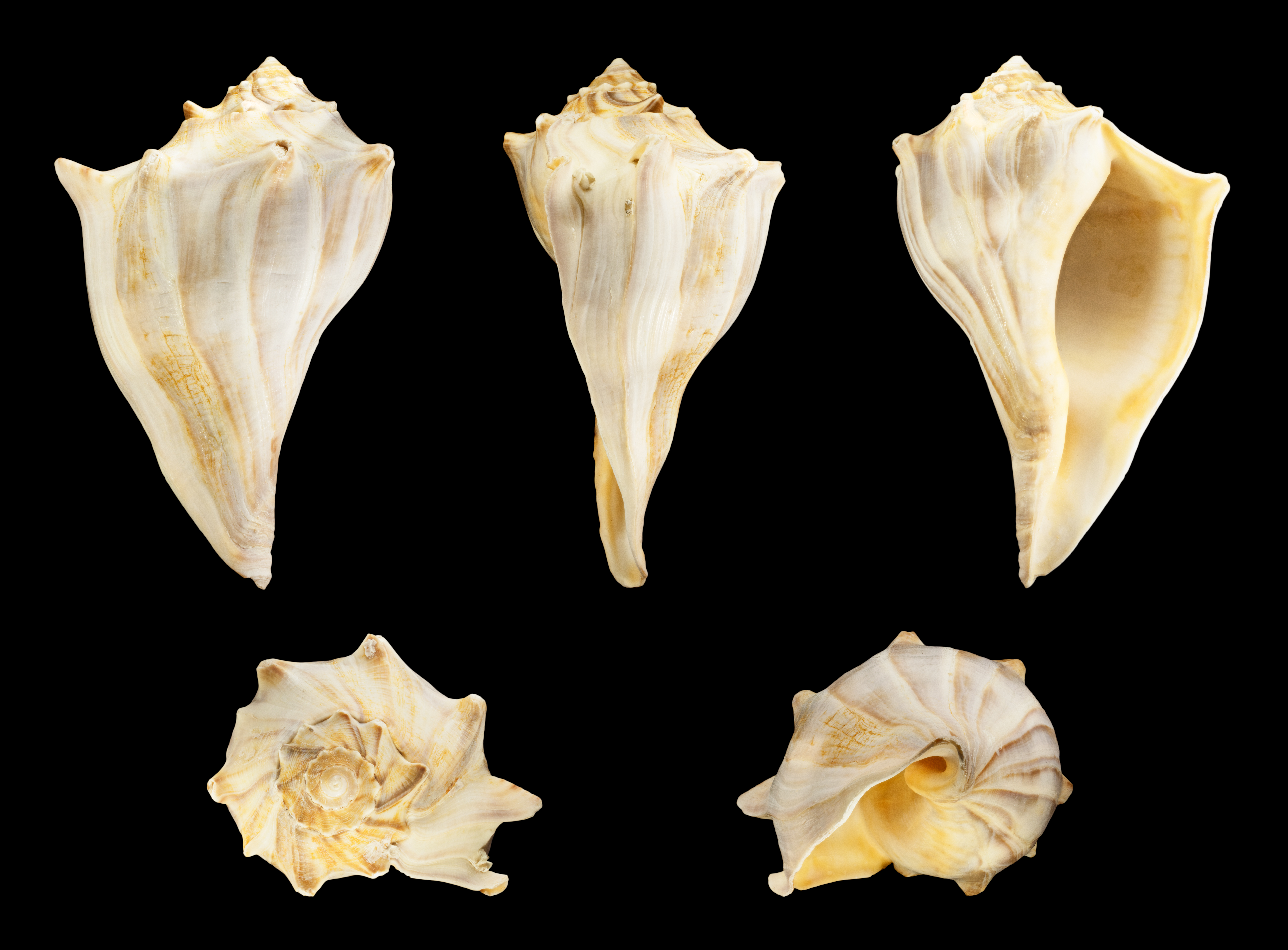 Busycon carica eliceans (de Montfort, 1810), Kiener's Whelk; Diameter 13.2 cm; Originating from Florida, USA. Shell of own collection, therefore not geocoded.